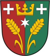 character of the village Pohorovice-Kloub